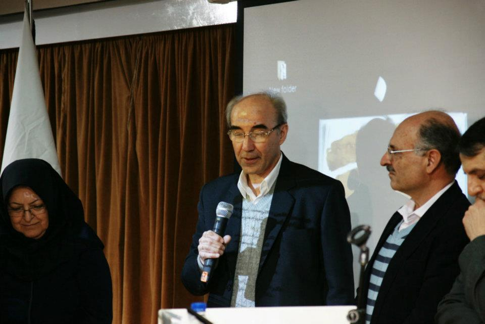 Syntax Conference in Tehran